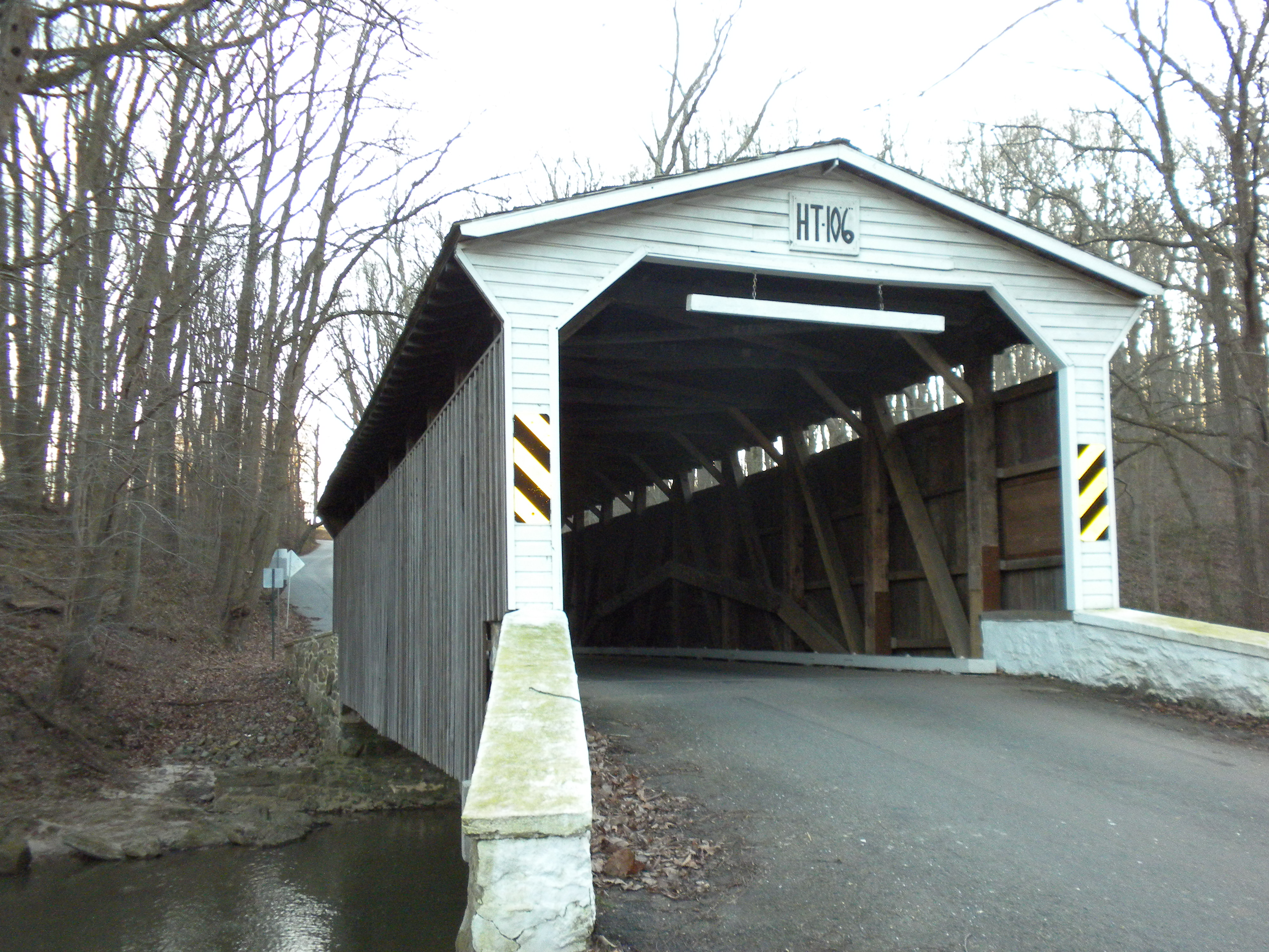 Glen Hope Covered Bridge as reconstructed, in Chester Co. PA near Oxford. On NRHP. This photo is my own work and I donate it to the public domain.